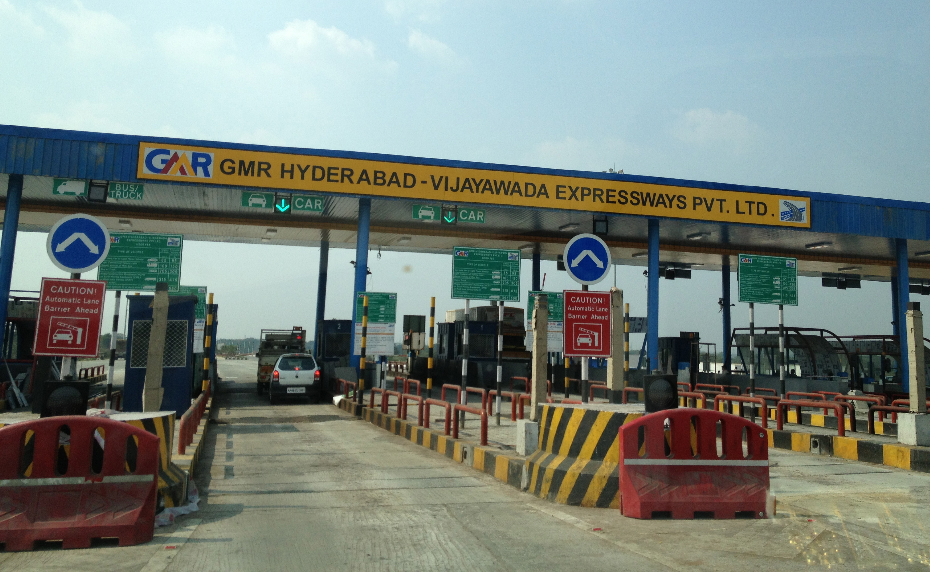 Four toll gates between Vijayawada and Hyderabad costing around INR 250 for a one way trip.